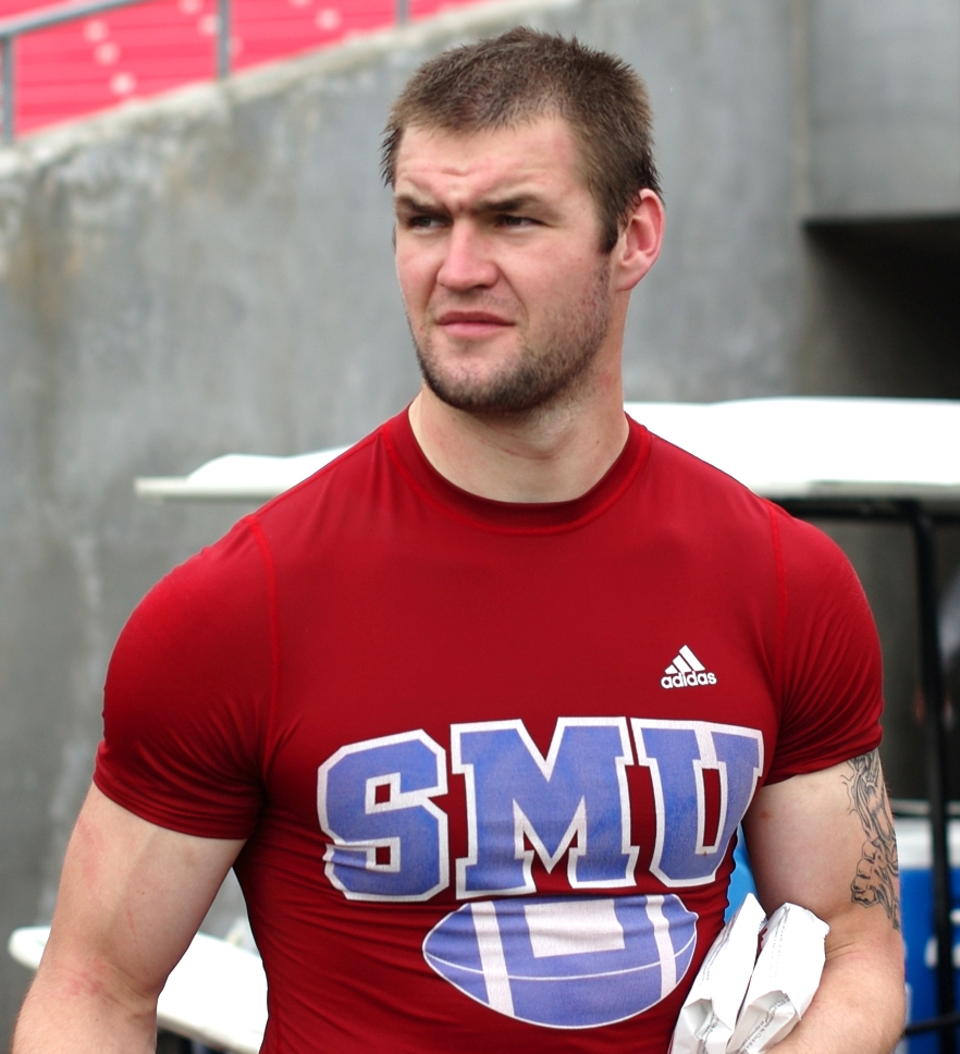 Margus Hunt at SMU Football Spring Practice 2009